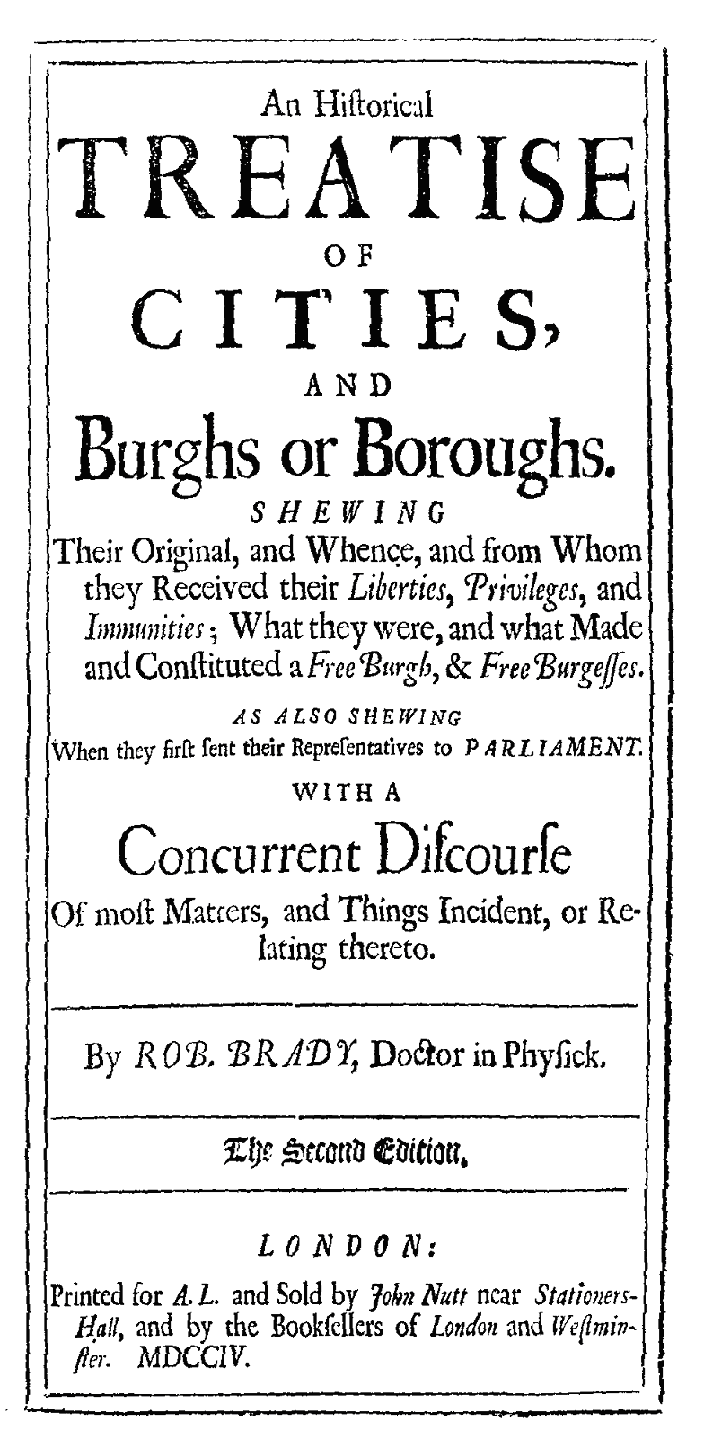 Title page of Brady's "An Historical Treatise of Cities and Burghs or Boroughs" Author is Robert Brady (d. 1700).